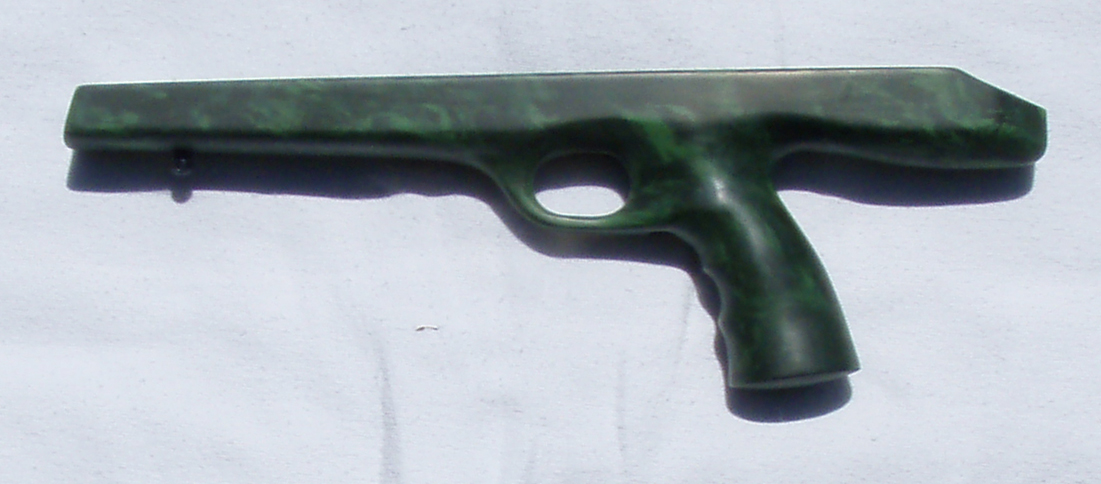 MacMillan custom stock for Remington XP-100 bolt-action pistol (left side)